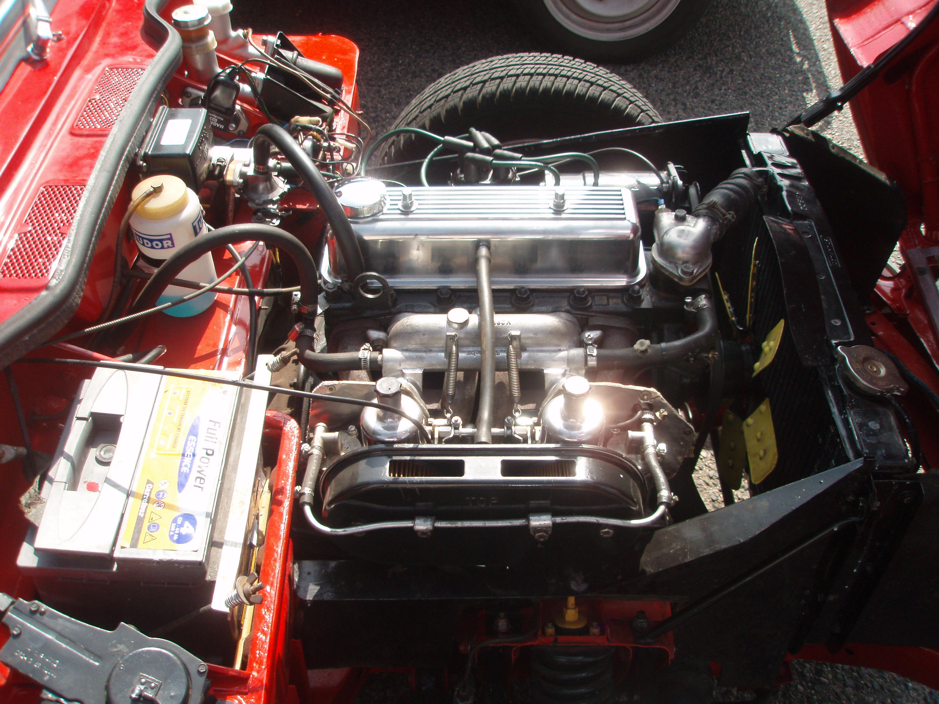 Engine bay of a Triumph Spitfire 4 MK2, restored in its original state (Excepted the radiator fan, which is not original), viewed from the right.